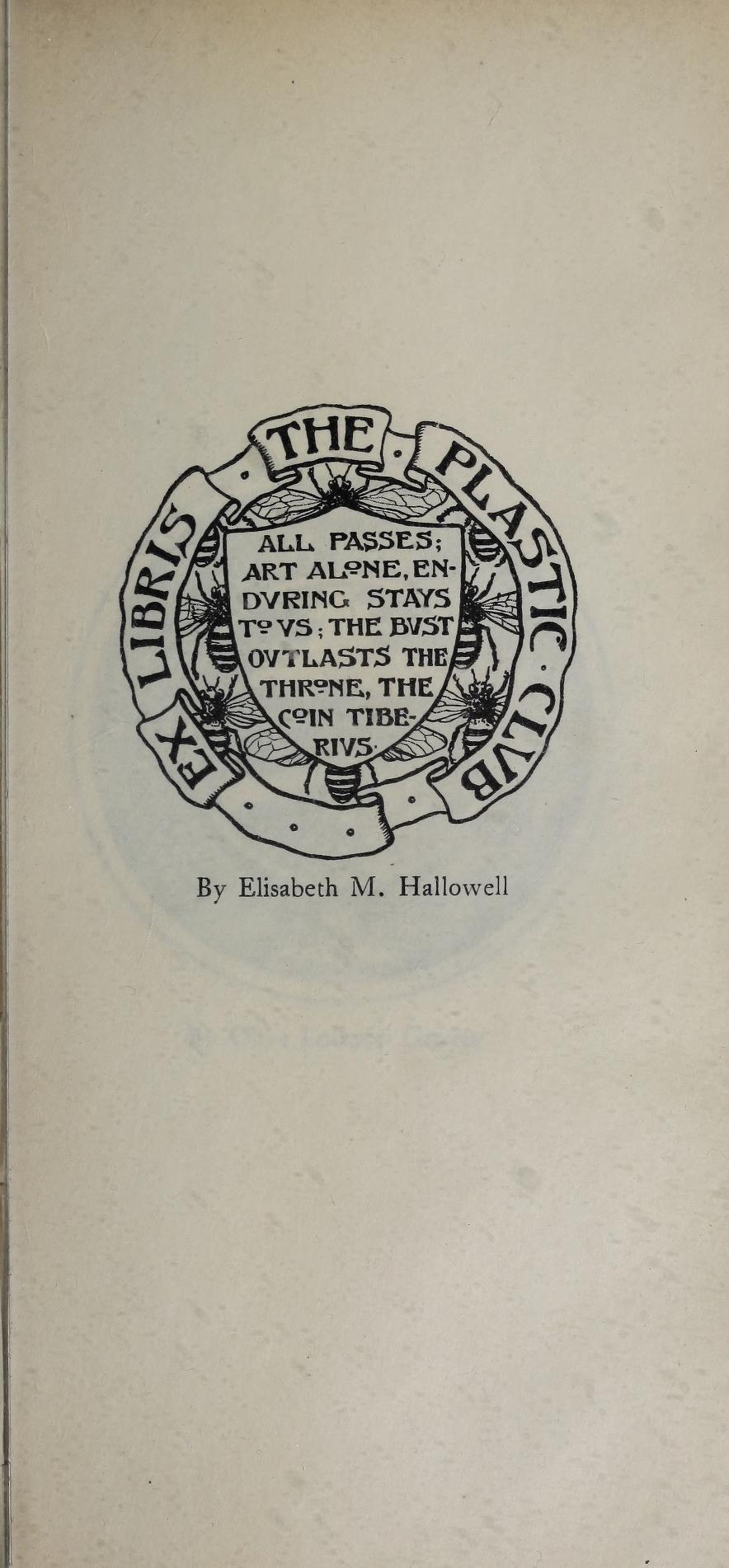 Book plate for The Plastics Club designed by Elisabeth M. Hallowell